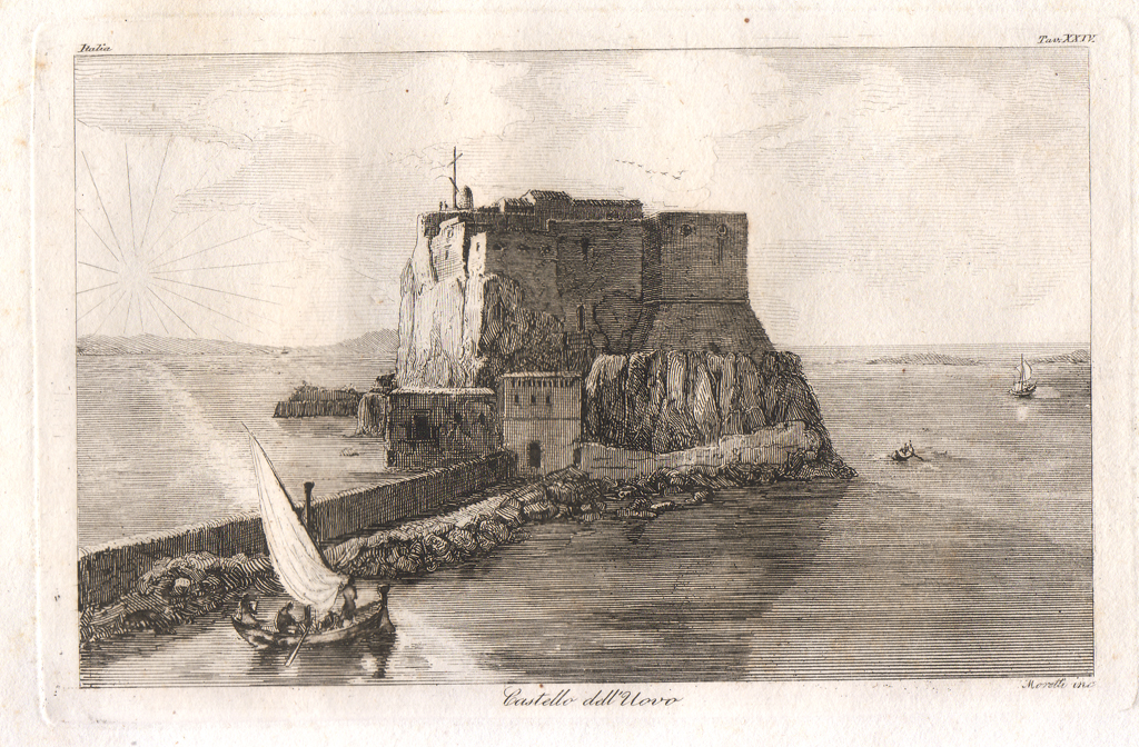 Naples, Castel dell'Ovo - Old print